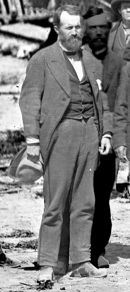 Engineers of U.P.R.R. at the laying Of the Last Rail Promontory (Scratched on negative) Image Description: See title. Number 151 is also scratched on negative. Physical Description: "Imperial Plate" collodion glass negative, 10"X13 ". Sub. Cat.: Transportation -- Railroads